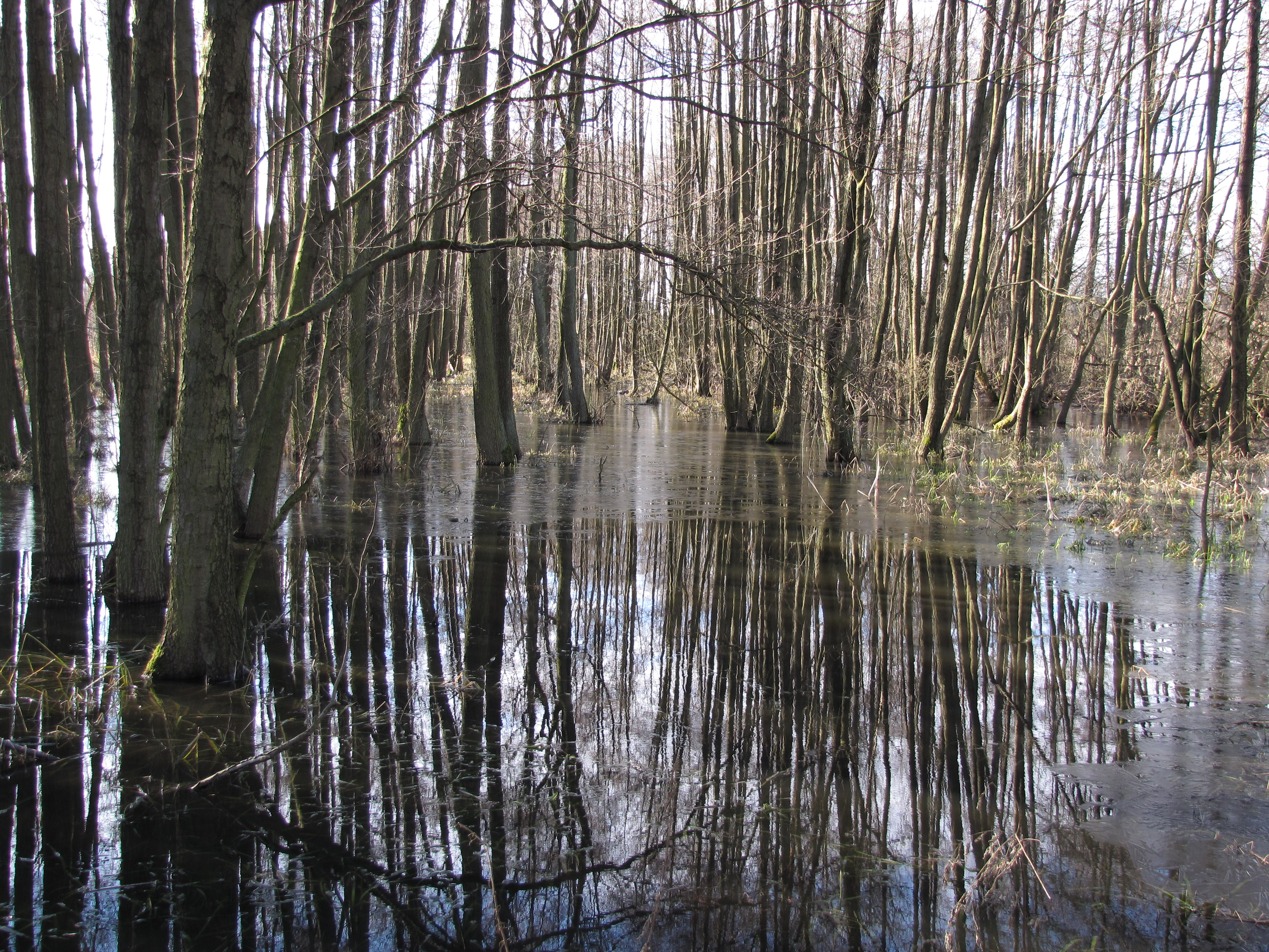 Bruchwald des Großmachnower Sees östlich von Pramsdorf, Groß Machnow, Gem. Rangsdorf, Brandenburg